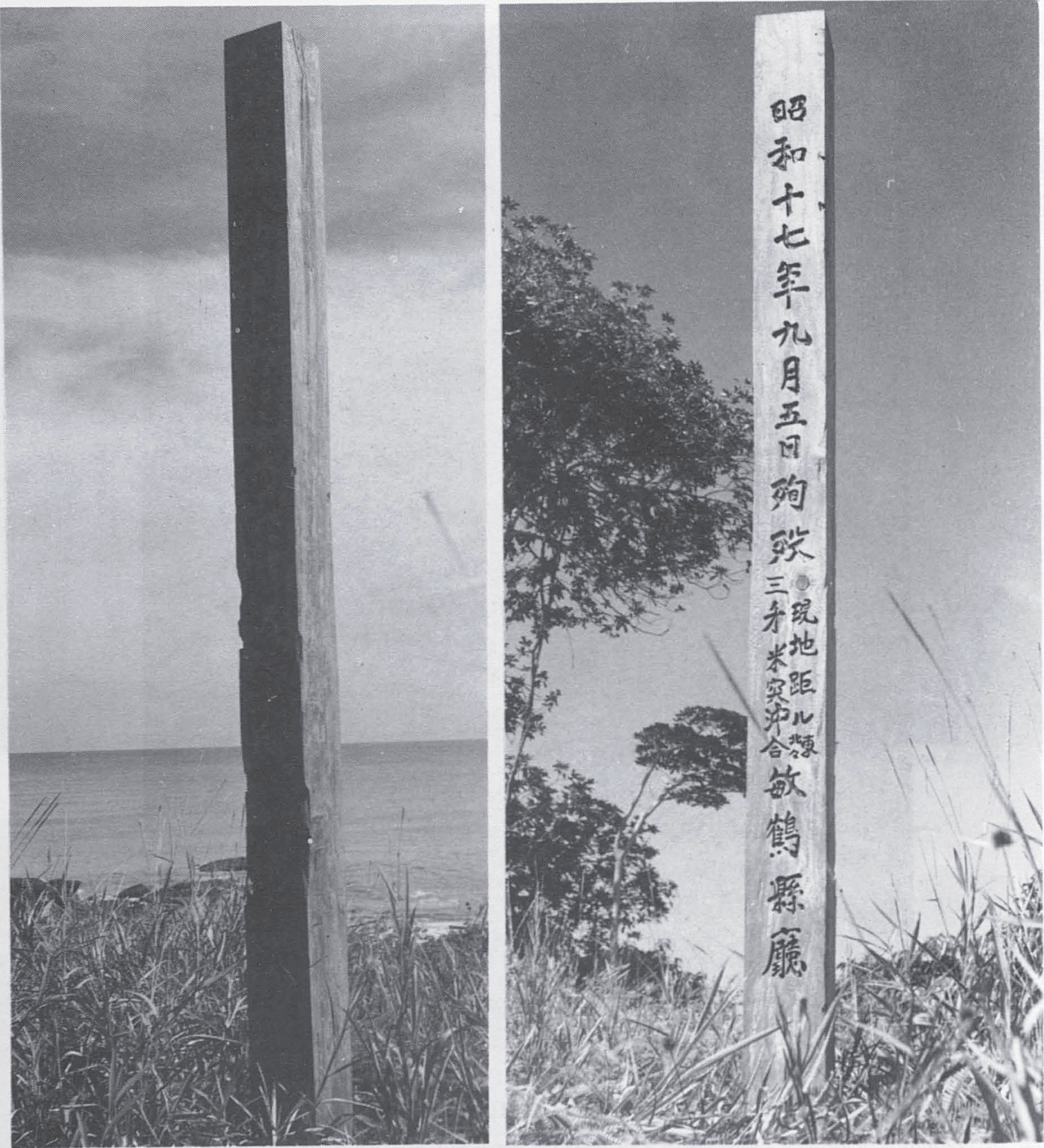 The Prince Maida memorial at Bintulu, Sarawak.